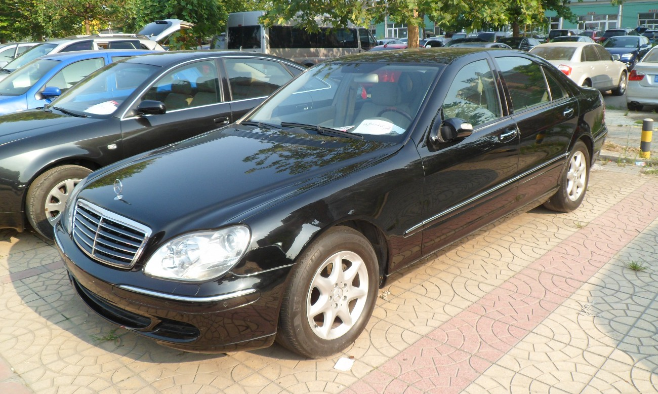 Mercedes-Benz S-Class W220 facelift photographed in Beijing, China.